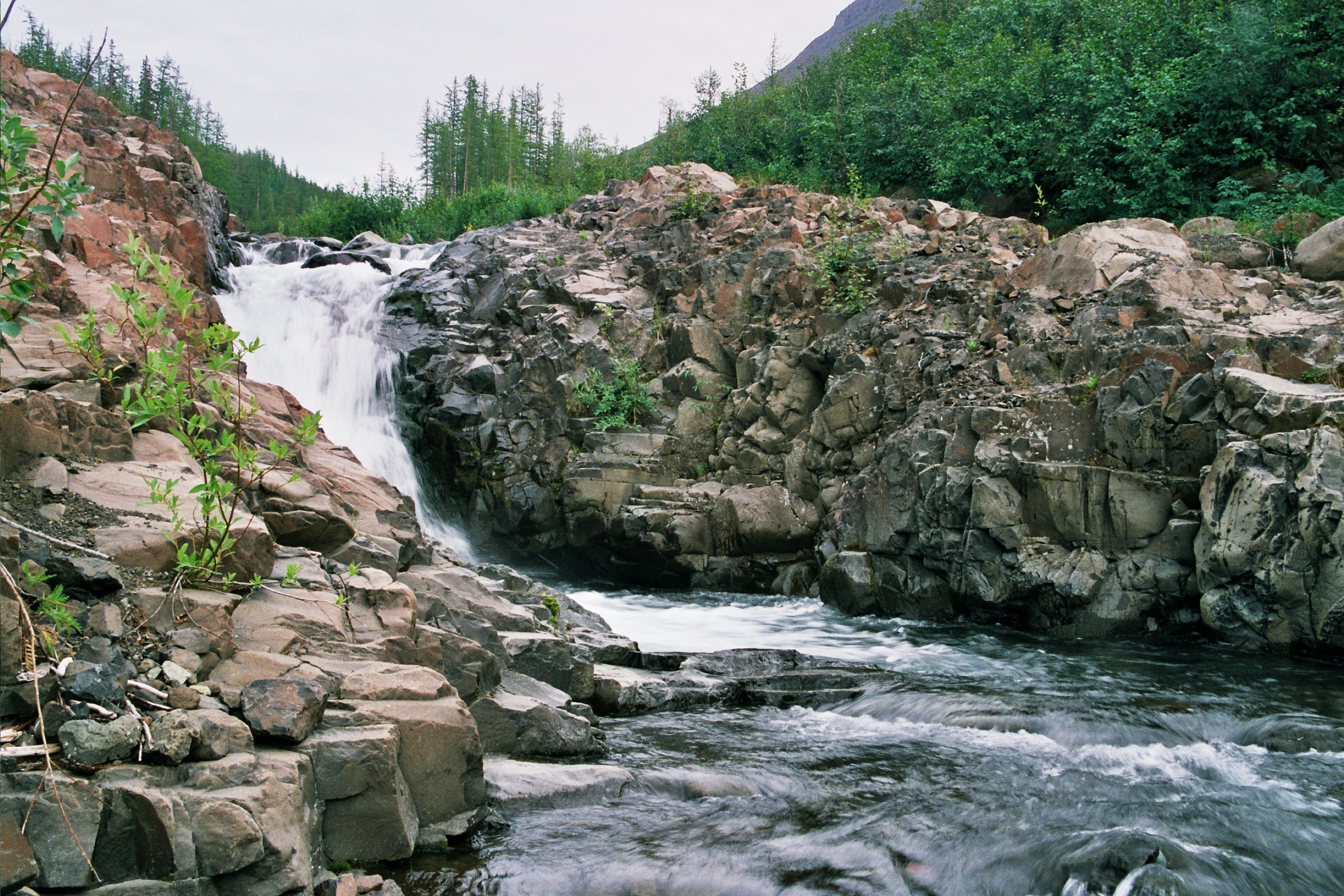 Putorana